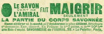 French advertising for a proprietary remedy for the treatment of obesity, a soap containing ox-bile